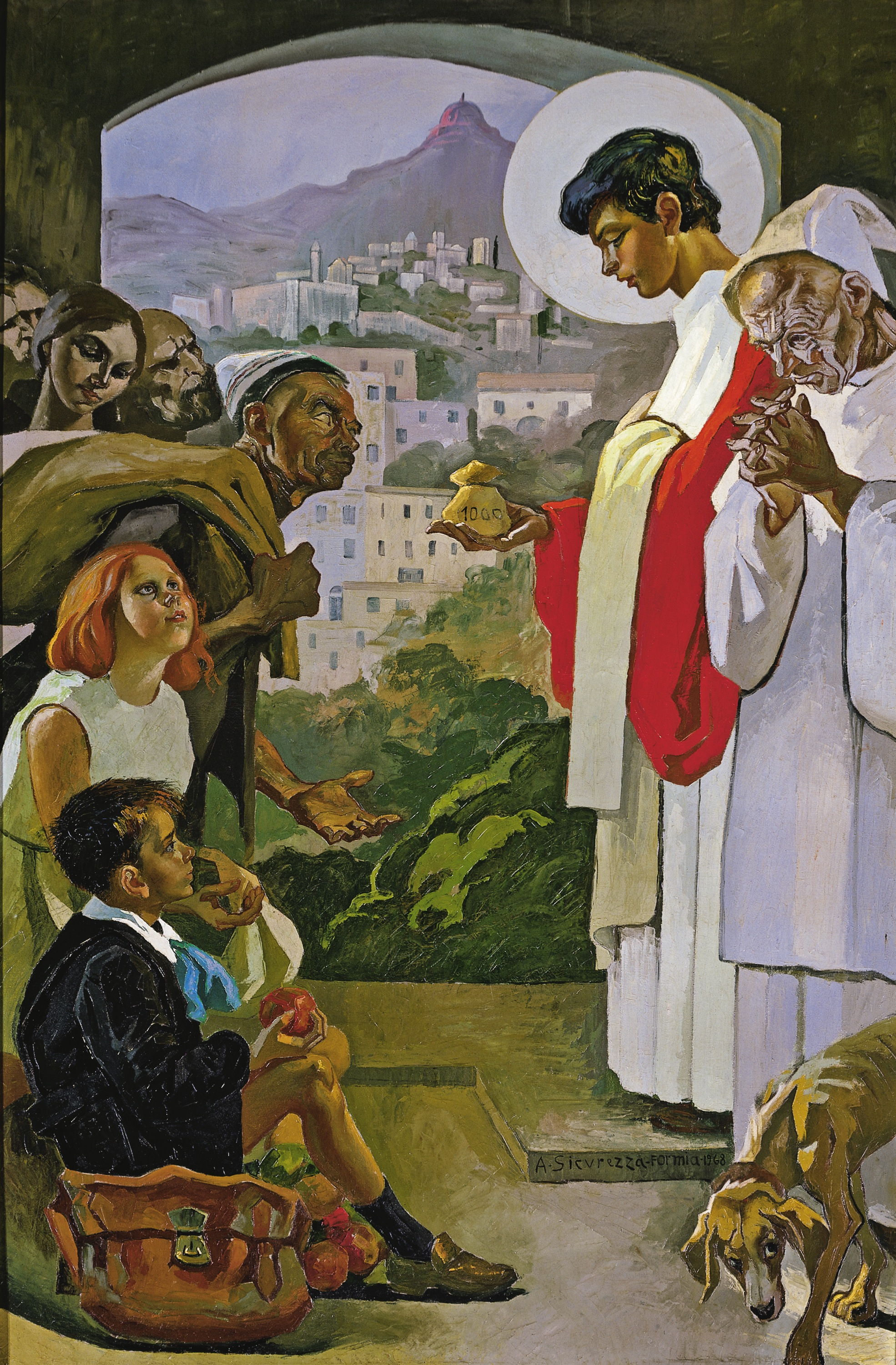 Charity of St Lawrence